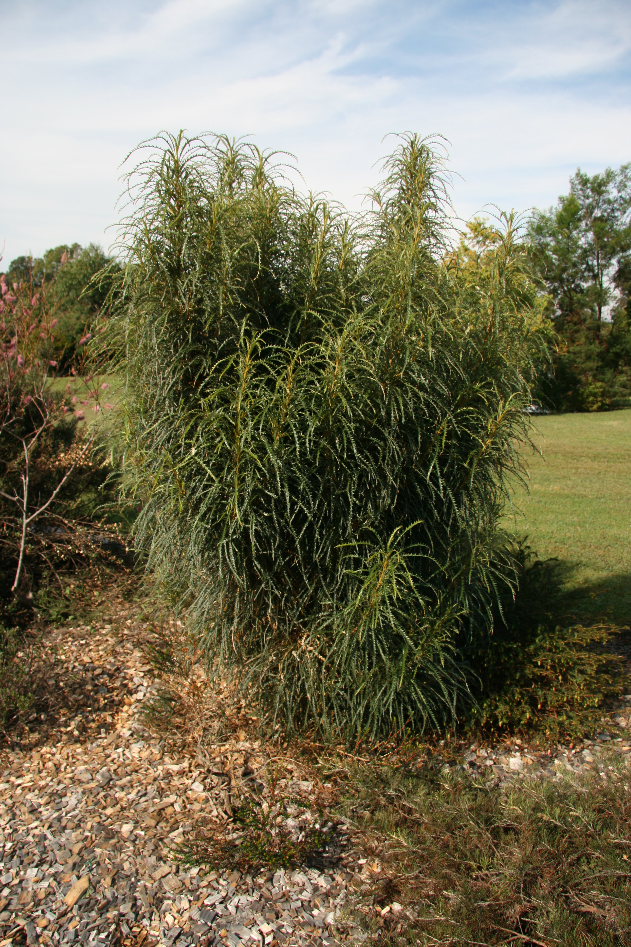 Grafted Banksia prolata (=Dryandra longifolia) - Oakdale